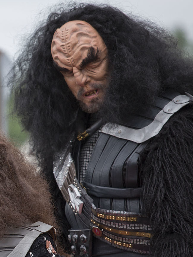 Annual Parade for Trek Fest in Riverside, Iowa.